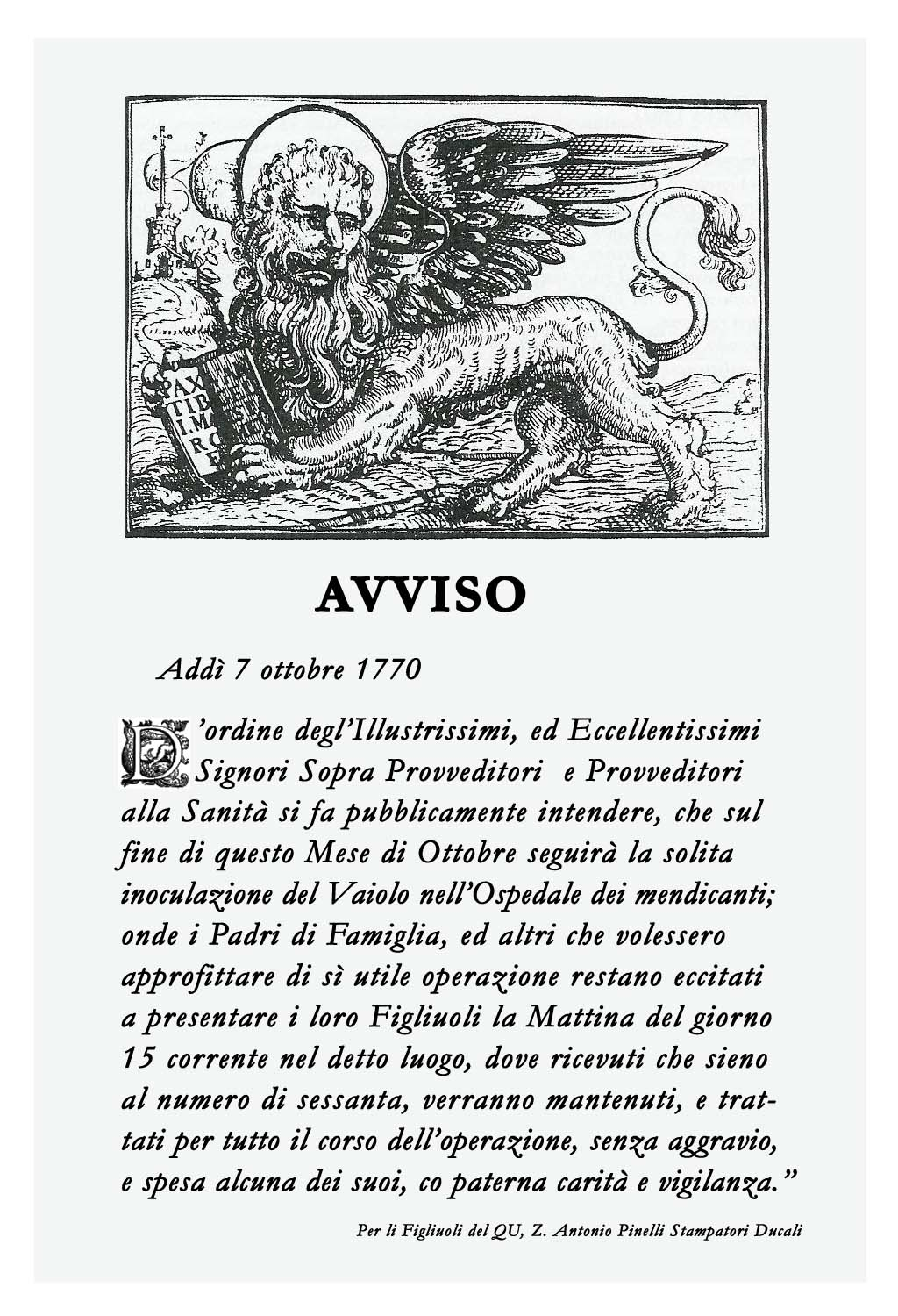 Photoshop reconstruction of a cartaceous document existing in the Archive of Venetian "Provveditori alla Sanità".